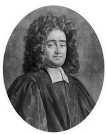 Portrait of Jeremy Collier (1650-1726), British clergyman and writer